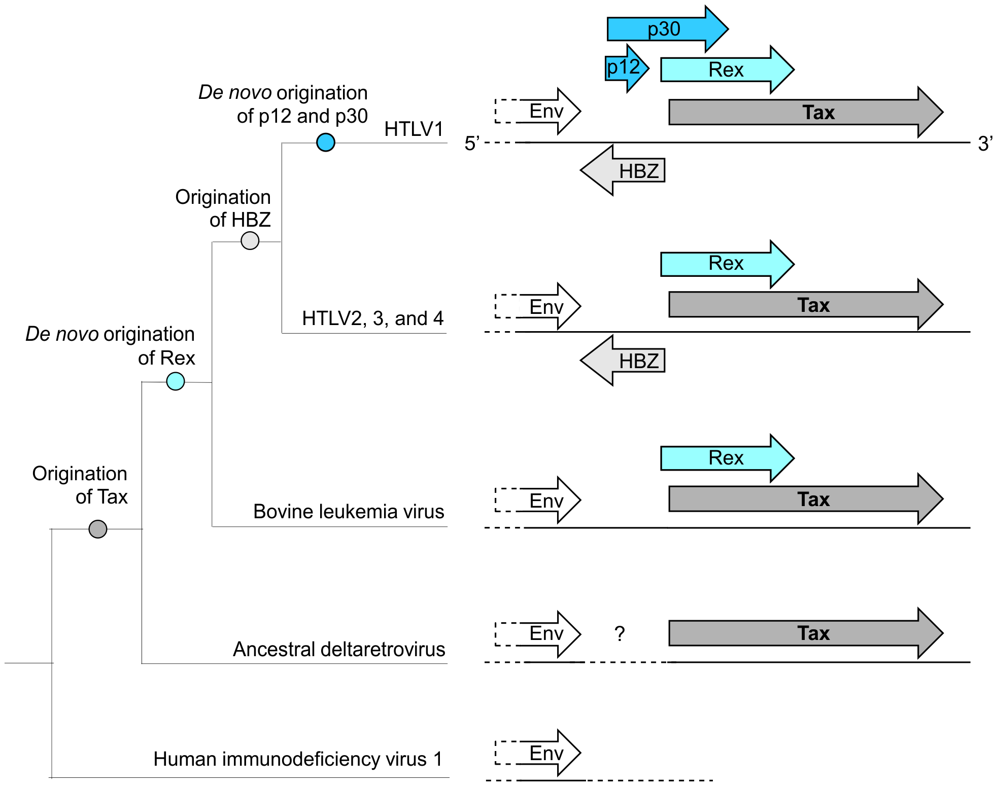 A cladogram indicating the likely evolutionary trajectory of the gene-dense pX region in Human T-Lymphotropic Virus 1 (HTLV1), a deltaretrovirus associated with blood cancers. This region contains numerous overlapping genes, several of which likely originated de novo through overprinting. This image is Figure 4 from the following paper: Viral Proteins Originated De Novo by Overprinting Can Be Identified by Codon Usage: Application to the “Gene Nursery” of Deltaretroviruses Pavesi A, Magiorkinis G, Karlin DG (2013) Viral Proteins Originated De Novo by Overprinting Can Be Identified by Codon Usage: Application to the “Gene Nursery” of Deltaretroviruses. PLOS Computational Biology 9(8): e1003162.